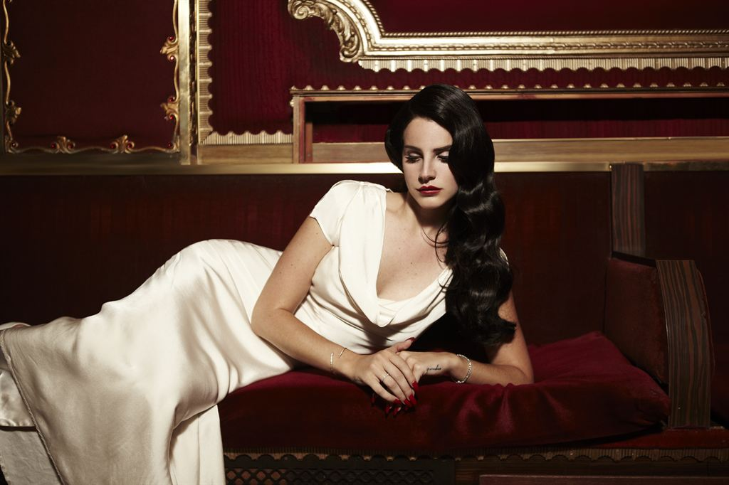 Brit and Ivor Novello award winner Lana Del Rey today released the video for ‘Burning Desire’. It was written and composed by the singer songwriter and will feature as the title track to a special film called ‘Desire’ starring Golden Globe winner Damian Lewis, which has been created by Jaguar and the award winning producers Ridley Scott Associates.